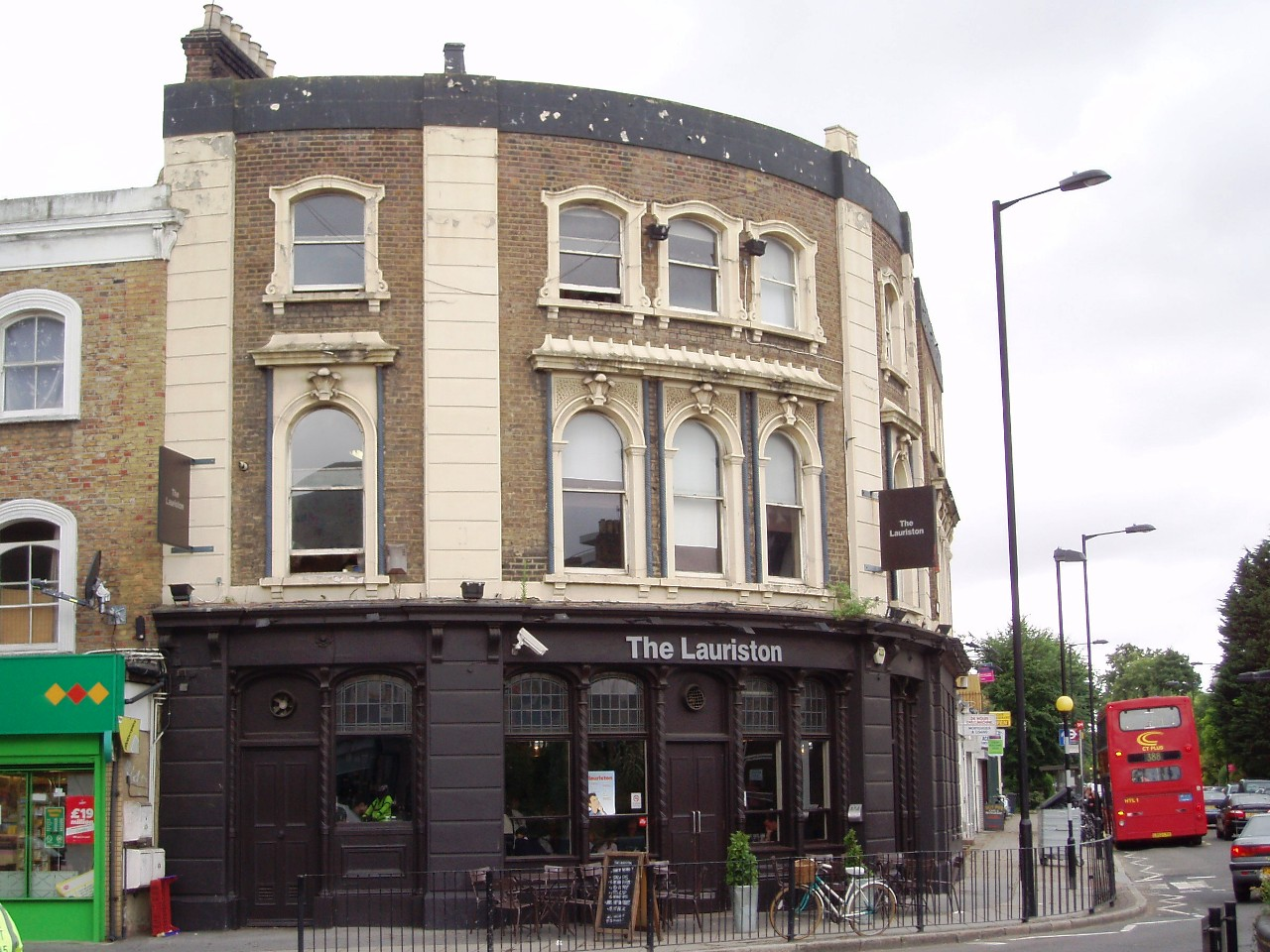 Nicely done up, filled with families and their kids on a Sunday. Food is largely pizzas. Seems nice enough. Address: 162 Victoria Park Road (formerly at The Broadway, Grove Street). Former Name(s): The Alex; The Alexandra; The Alexandra Hotel; The Alexandra Tavern. Owner: (website); Bar Room Bar (former); Charrington (former). Links: London Pubology